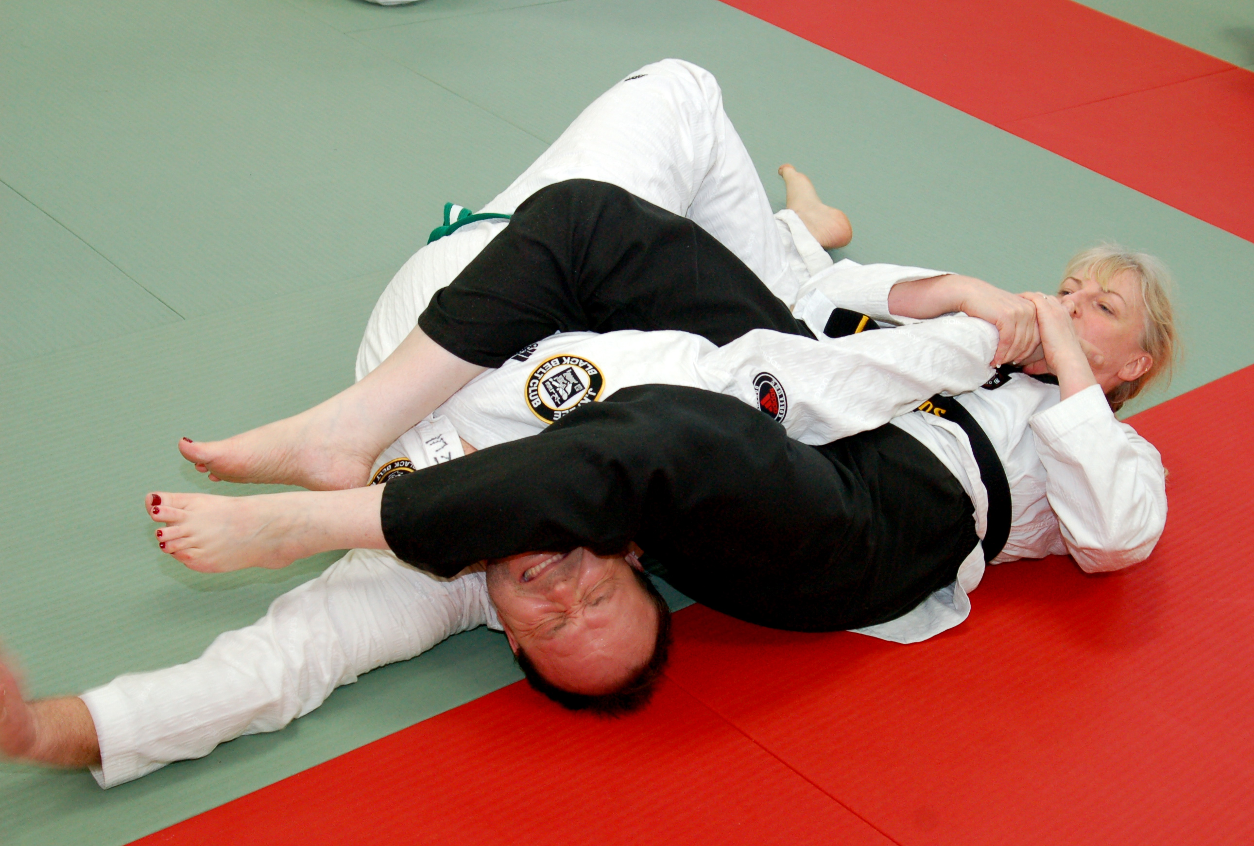 Armlock